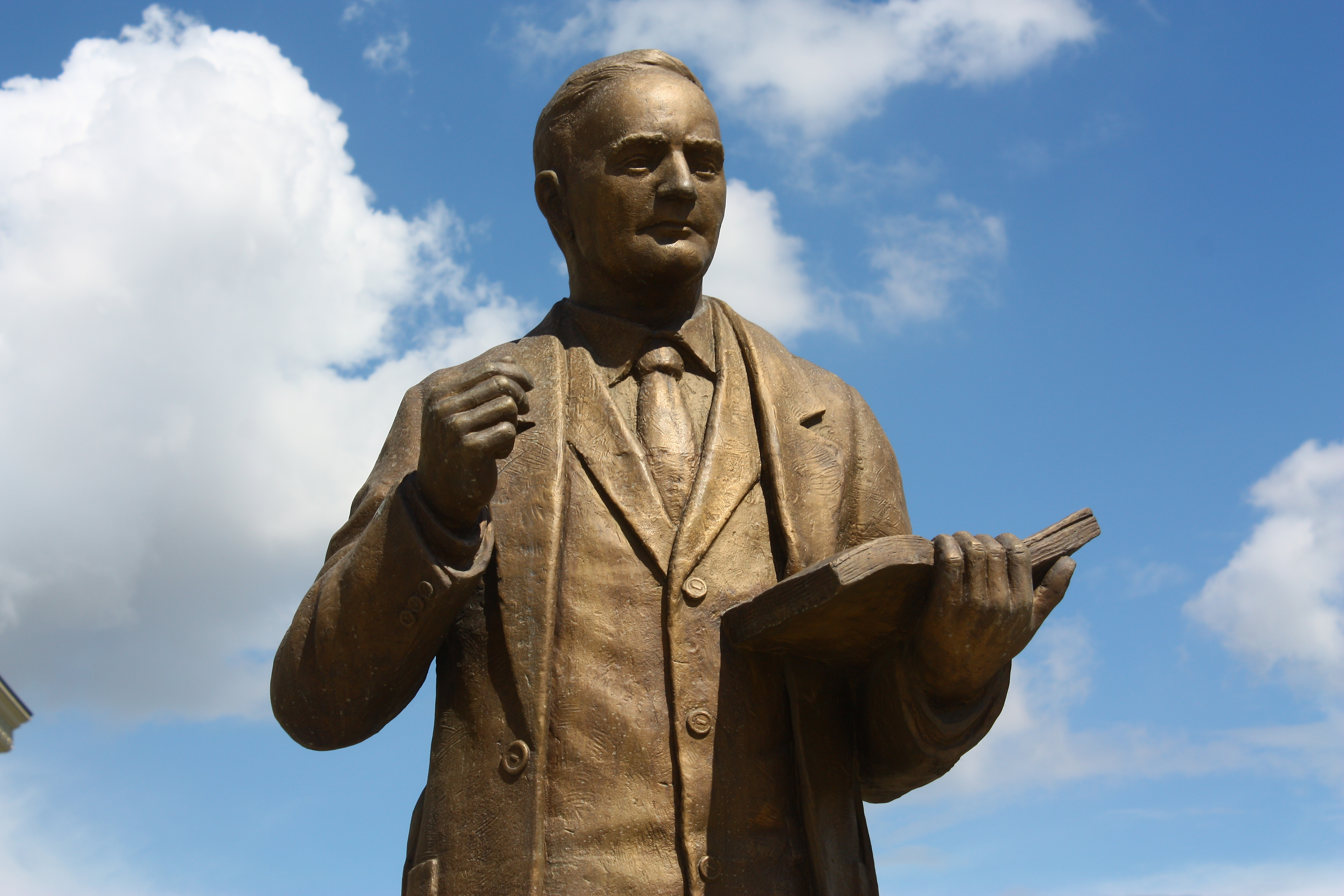 Sculpture od the Bridge of Arts in Skopje, Macedonia This image is uploaded as part of the picture contest Wiki Loves Cultural Heritage in Macedonia 2013. English | македонски | +/−